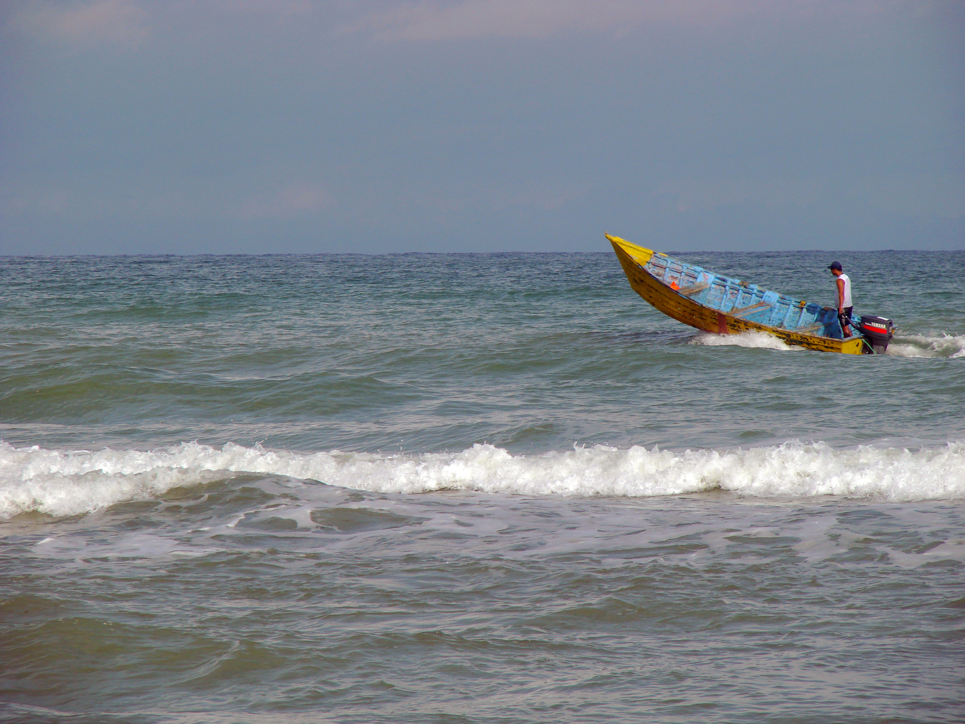 Mahmudabad is a city in and the capital of Mahmudabad County, Mazandaran Province, Iran.